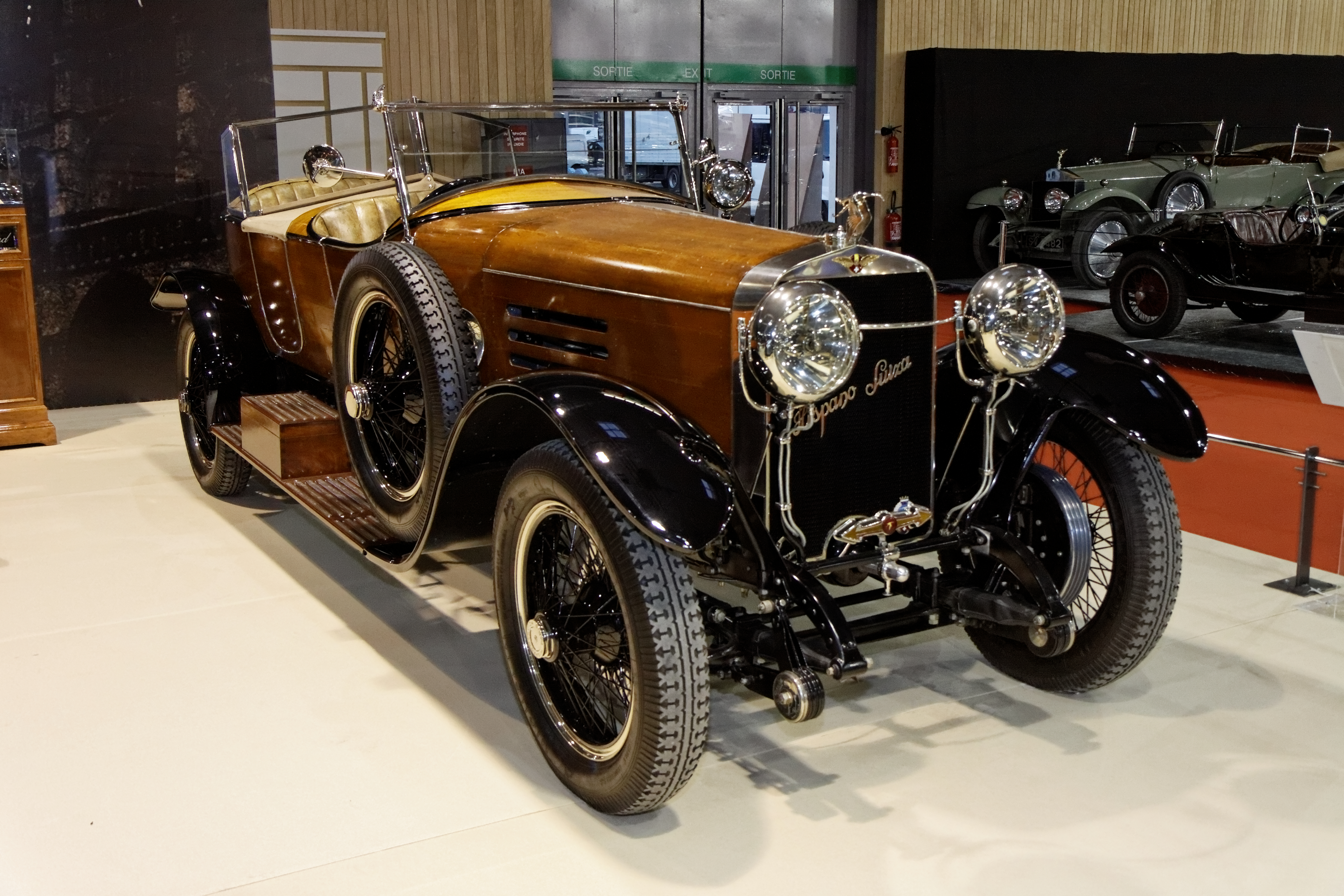 Hispano-Suiza type H6 B